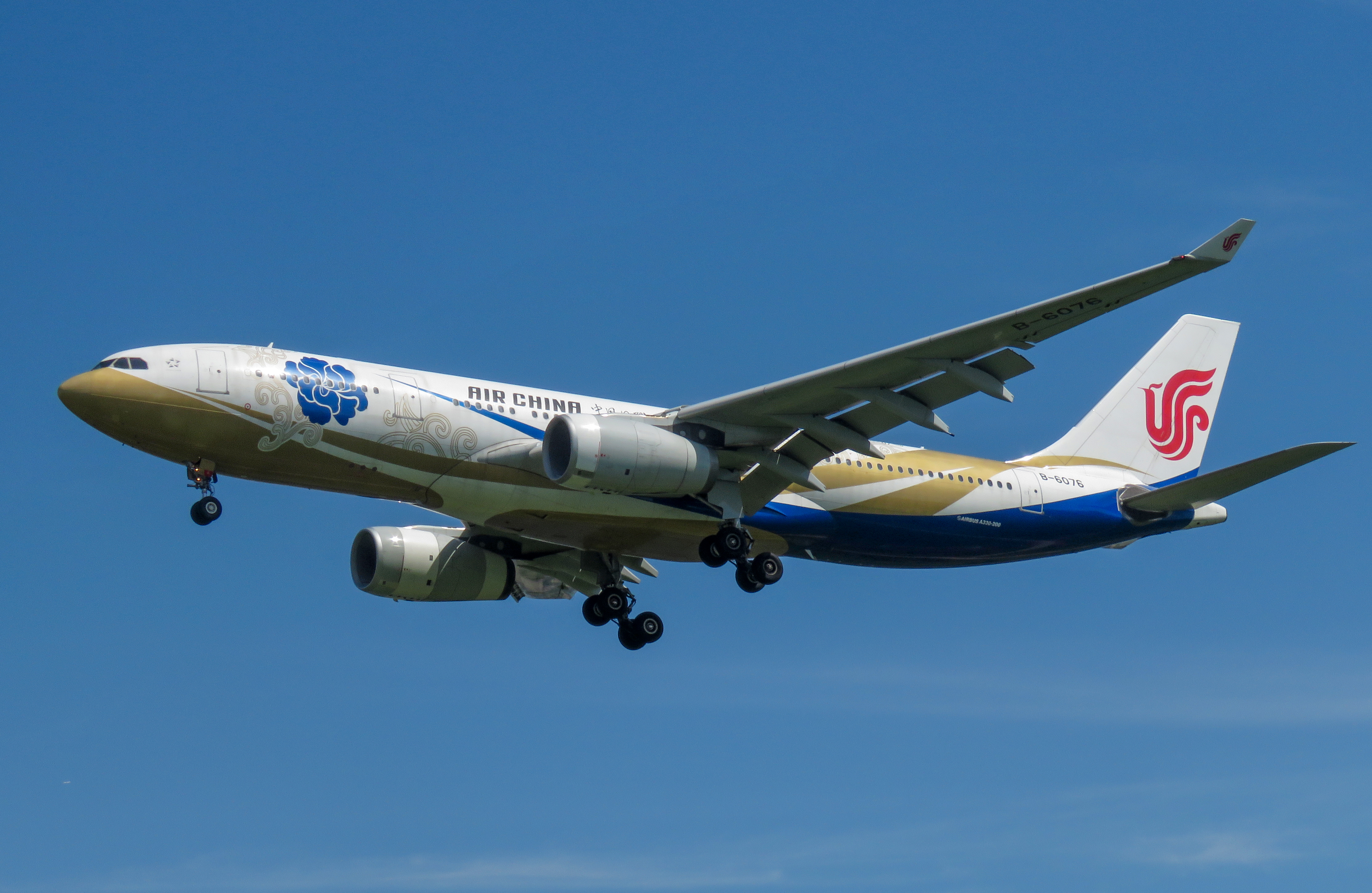 Air China 1502 from Shanghai Hongqiao. Next is B-301D!